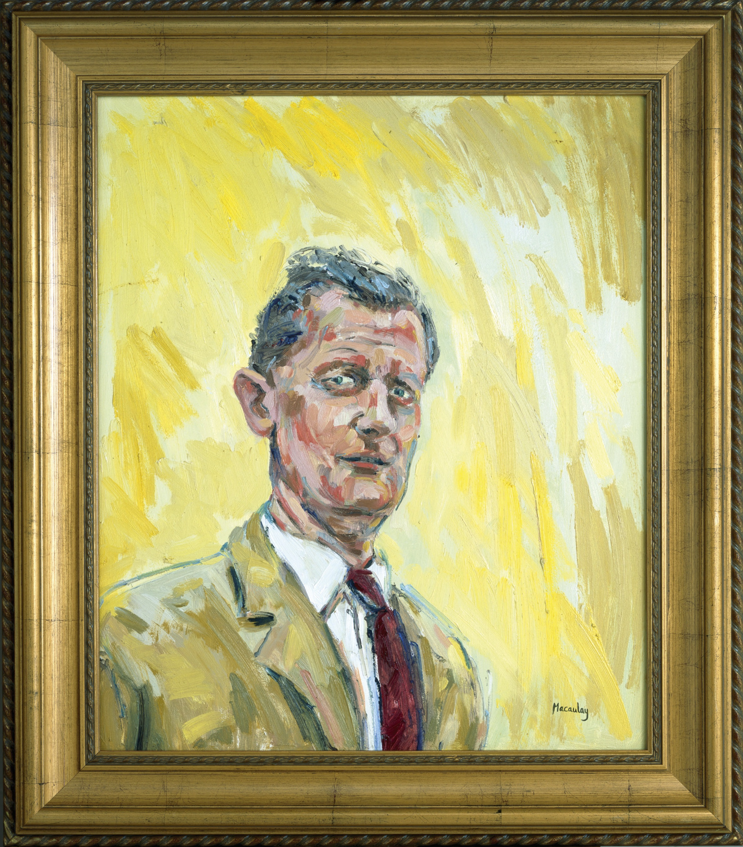 Robert Francis Dudgeon Ancell (16 June 1911 – 5 July 1987) . Painted by Kristina Macaulay Oil on Board, 49cm/59cm